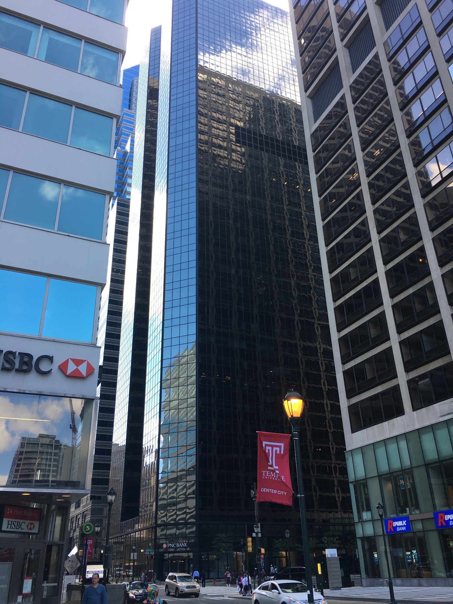 PNC Bank Tower in September 2017